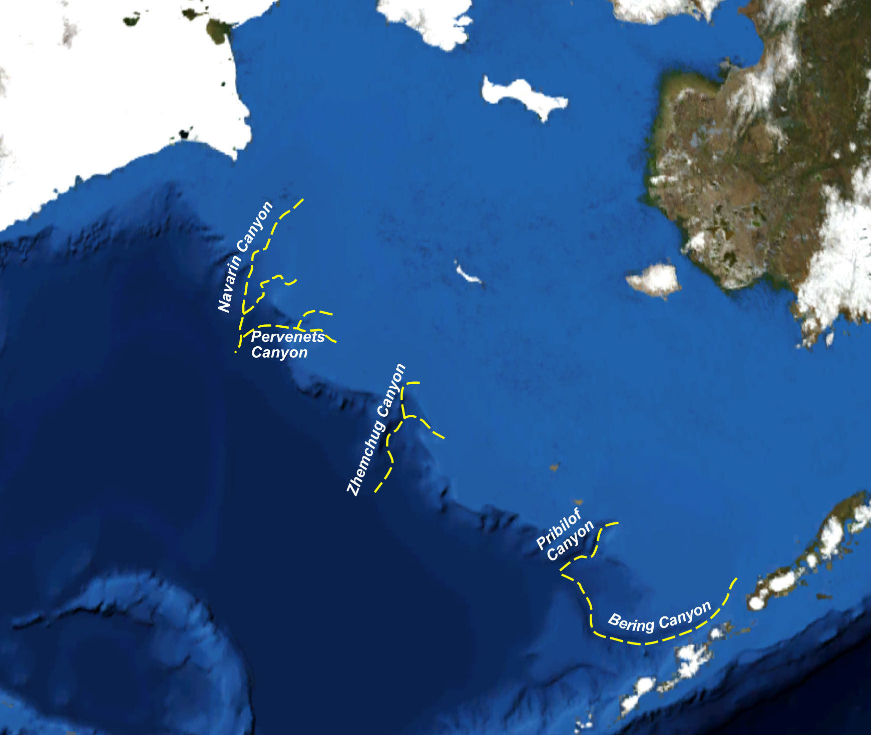 Screen capture from NASA WorldWind software of margin of the Bering Sea with the larger submarine canyons highlighted